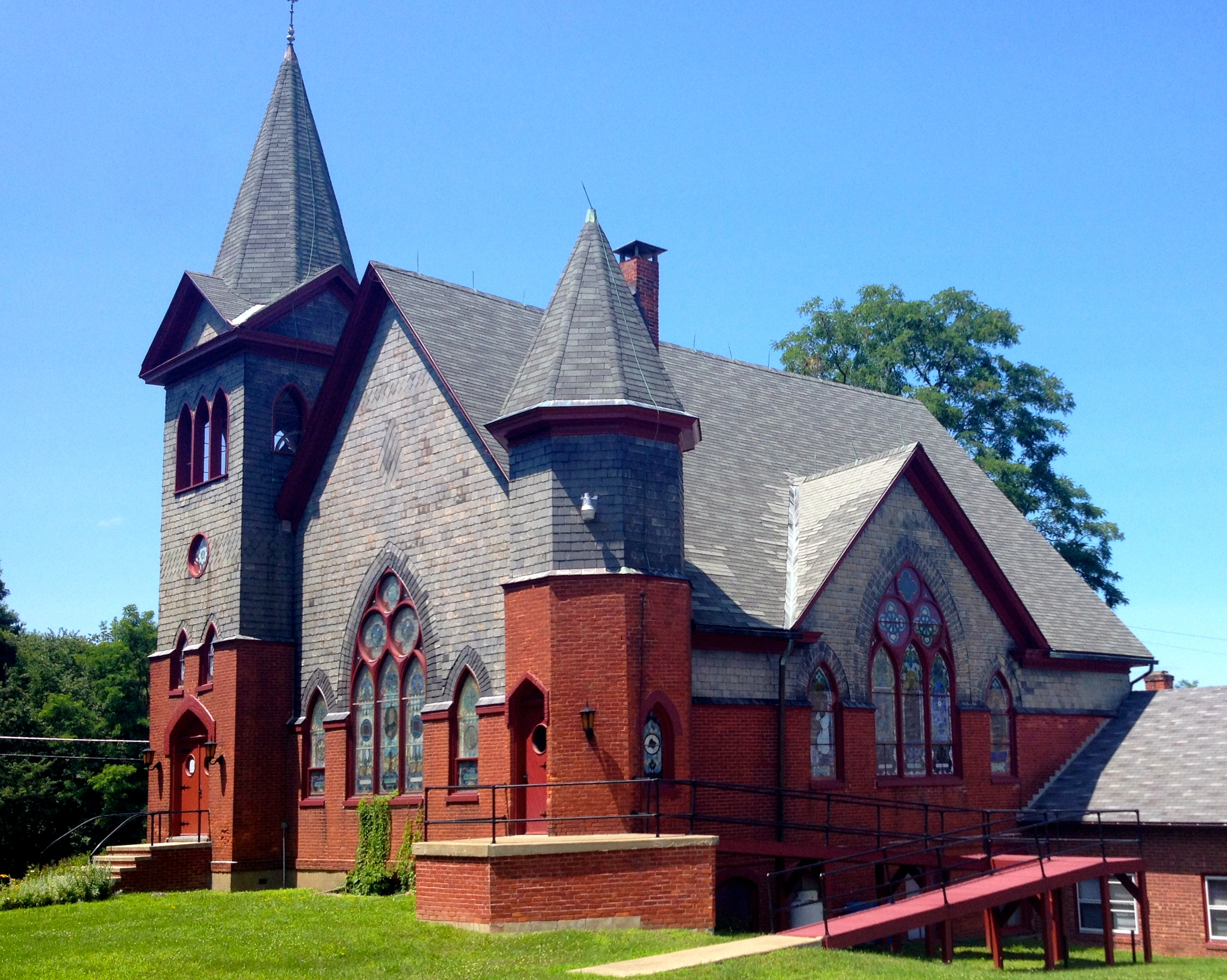 St. John's Evangelical Lutheran Church, 923 Route 19, Livingston, NY.